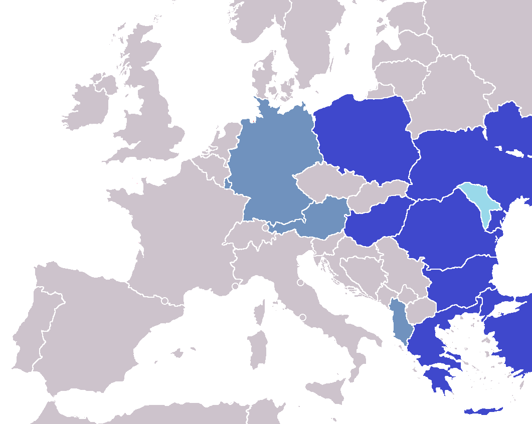 A map of the countries Praktiker operates in Europe (blue: exists in present, pale blue: formerly, light blue: formerly planned but never existed